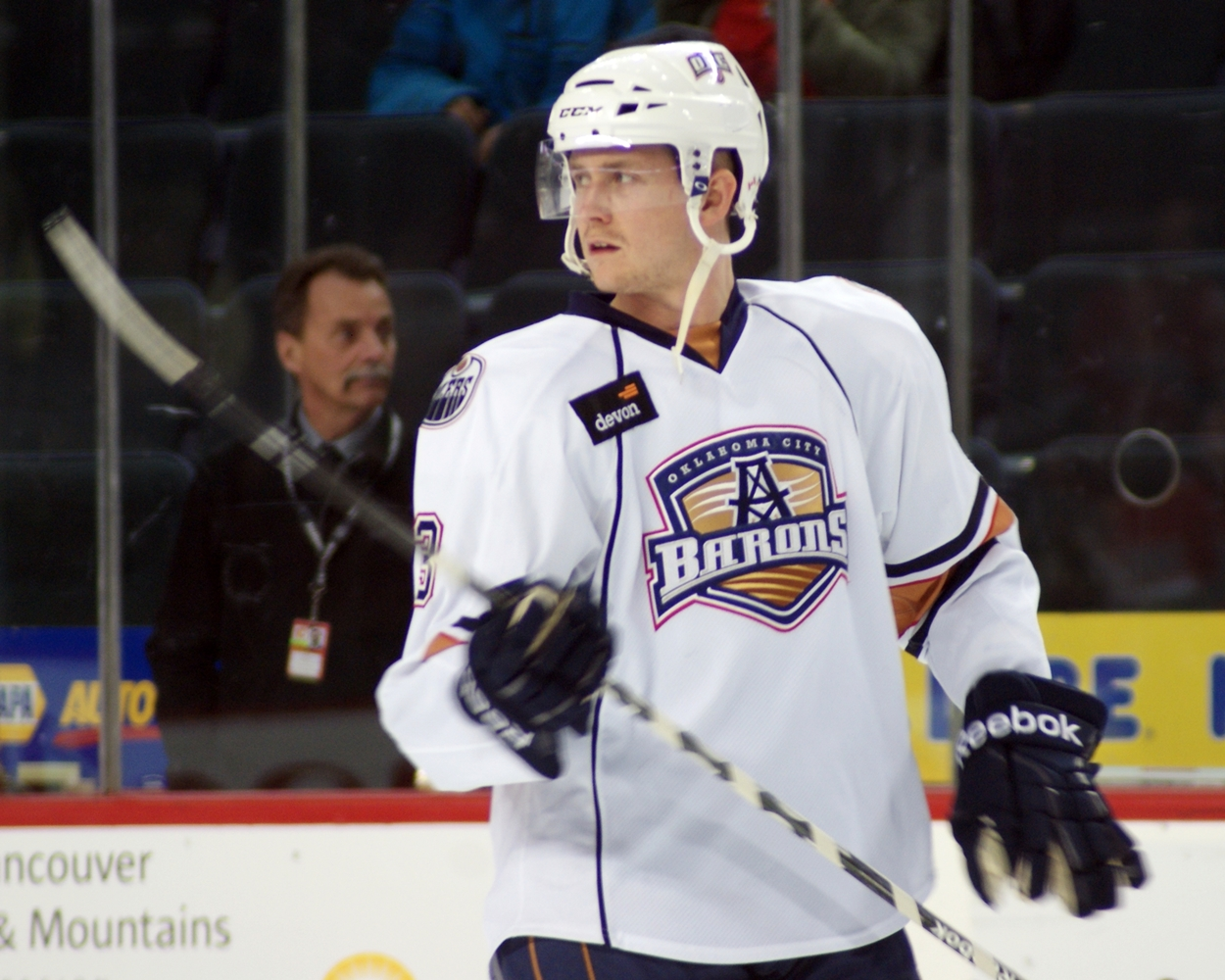 Jeff Petry, born December 9, 1987 in Ann Arbor, Michigan, is an American professional ice hockey defenceman. He was selected by the Edmonton Oilers in the 2nd round (45th overall) of the 2006 NHL Entry Draft. Photo was taken on February 18, 2011 during an American Hockey League (AHL) regular season game.